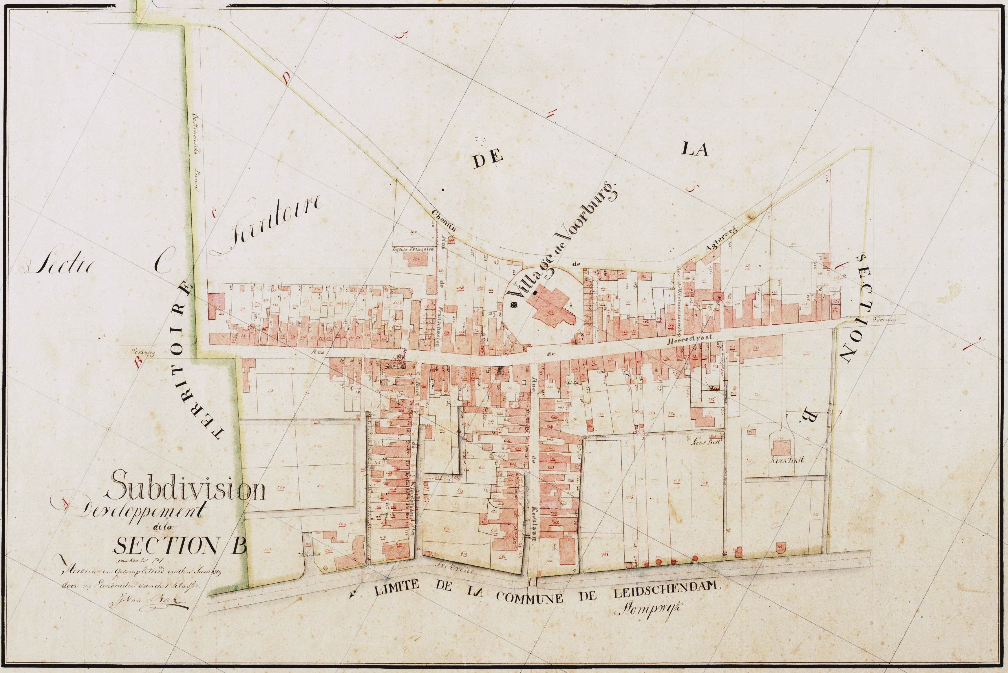 Cadastral map of Voorburg of 1819 (Province of South Holland, Netherlands), with numbered lots and observations/names in Dutch and French.